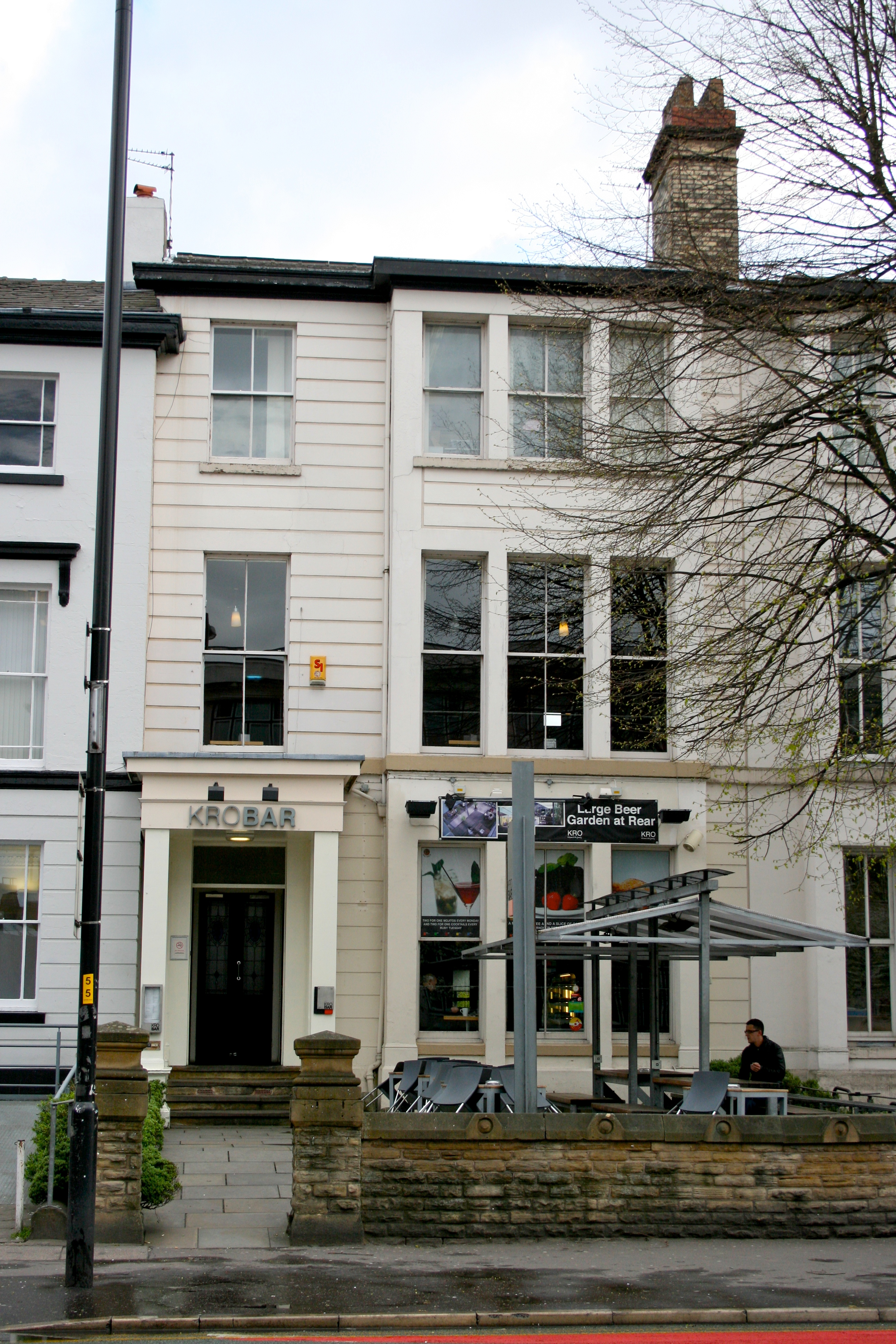 Outside of Kro Bar, Manchester